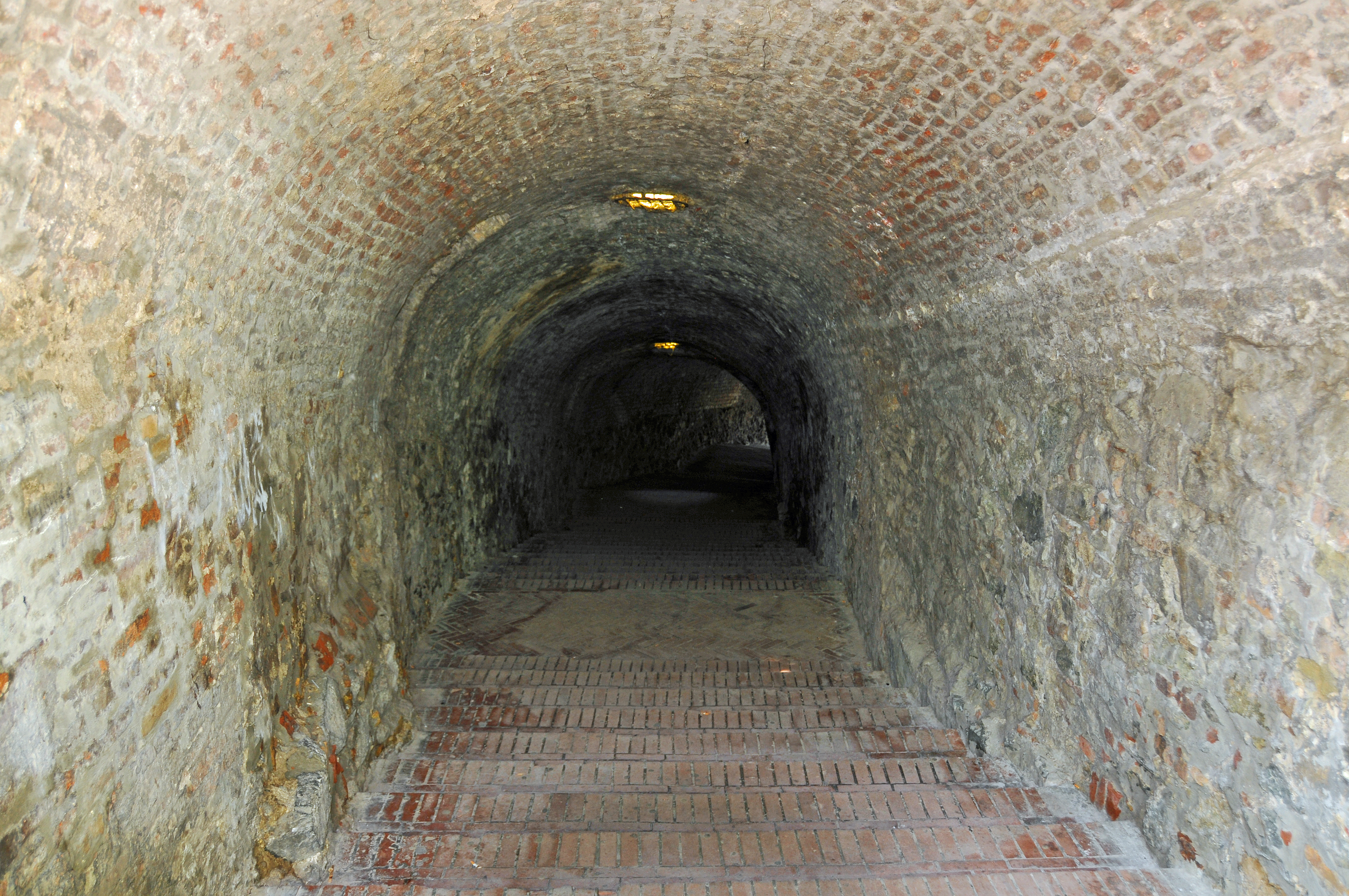 PLEASE, no multi invitations, glitters or self promotion in your comments, THEY WILL BE DELETED. My photos are FREE for anyone to use, just give me credit and it would be nice if you let me know, thanks - NONE OF MY PICTURES ARE HDR. A long tunnel that goes to the fortress. Petrovaradin Fortress is a fortress in Novi Sad, on the right bank of the Danube river. The cornerstone of the present-day southern part of the fortress was laid on October 18, 1692. Petrovaradin Fortress has many underground tunnels as well (16 km of underground countermine system). Recent archeological discoveries have offered a new perspective not only on the history of Petrovaradin, but on the entire region. At the Upper Fortress, the remains of an earlier Paleolithic settlement dating from 19,000 to 15,000 BC has been discovered. With this new development it has been established that there has been a continuous settlement at this site from the Paleolithic age to the present. During the excavations carried out in 2005, archeologists also discovered another significant find. Examining remains from the early Bronze age (c. 3000 BC), ramparts were discovered which testify that already at that time a fortified settlement existed at the Petrovaradin site.